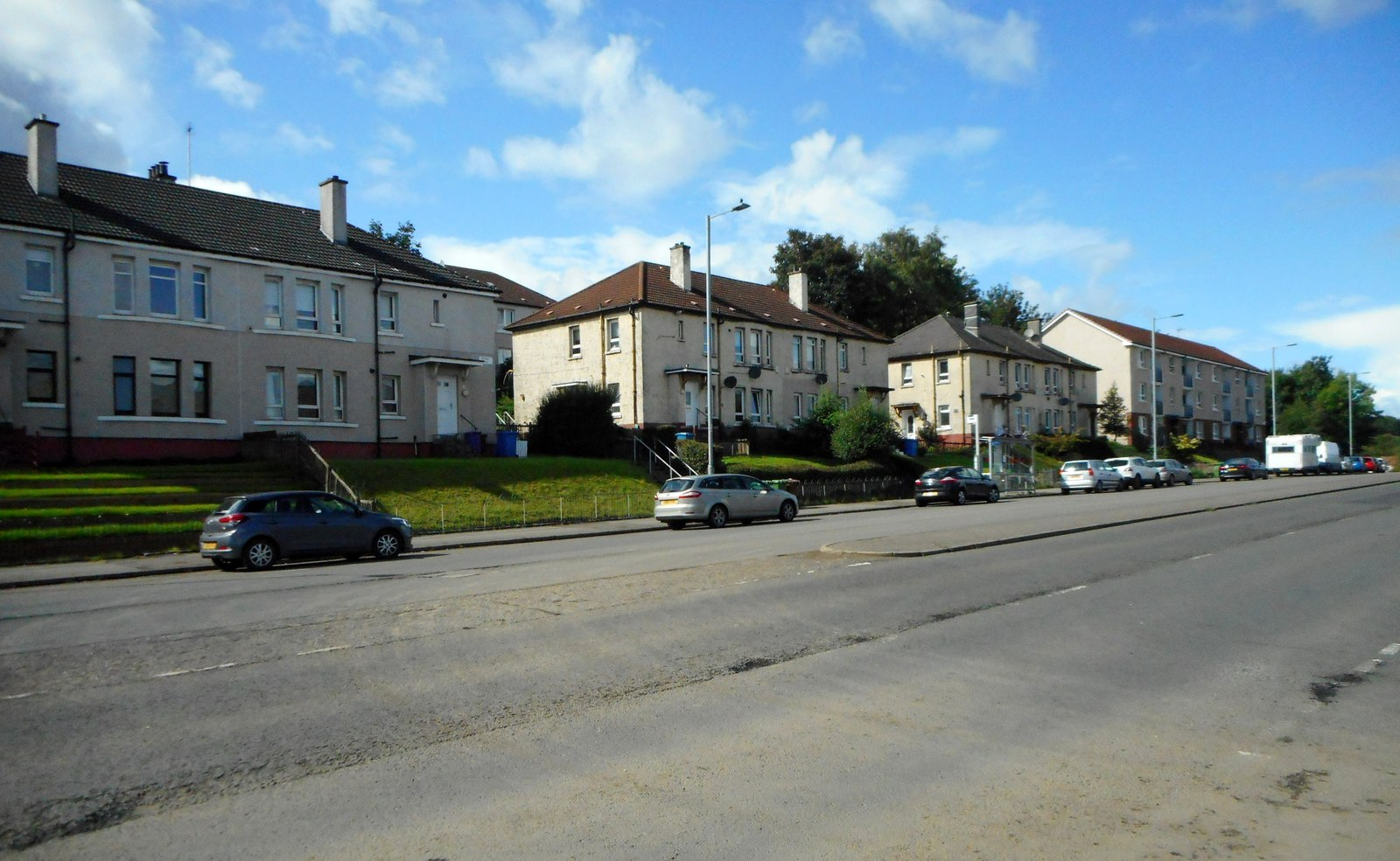 Properties on Nitshill Road